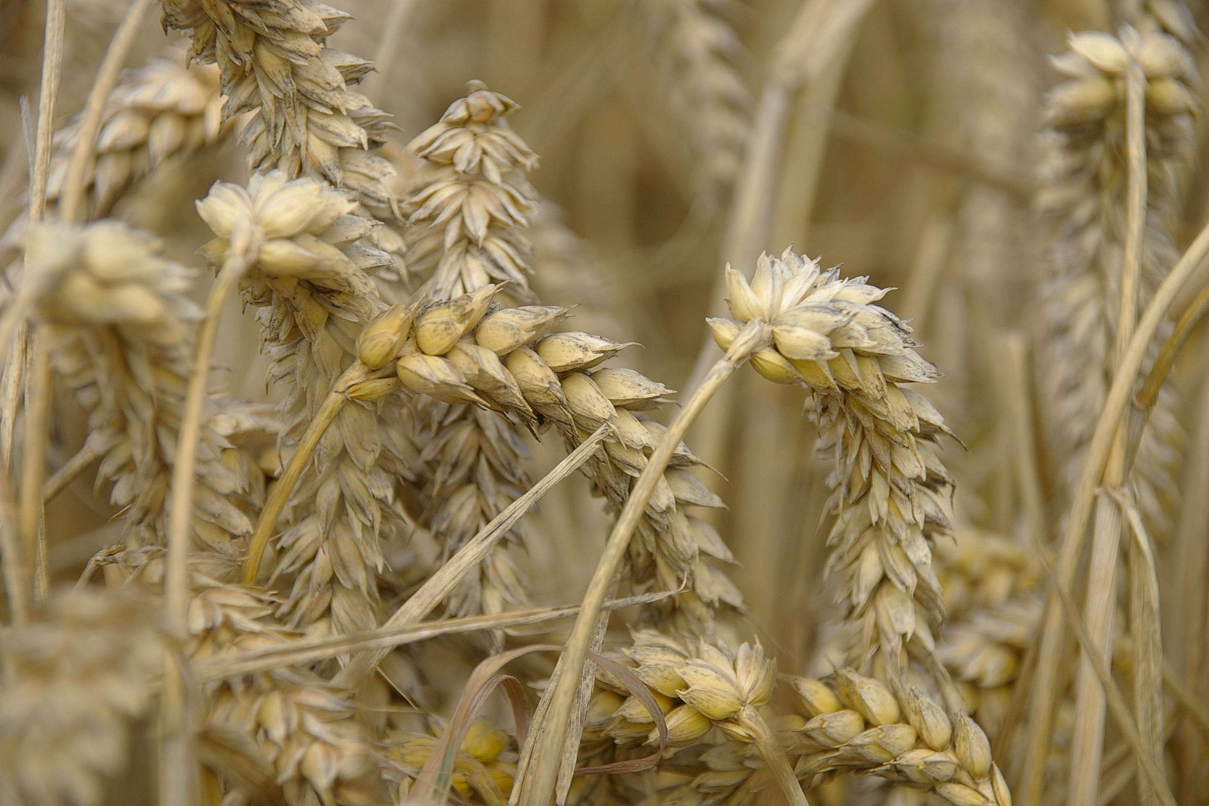 Grain, wheat ears in our holiday picnic field; Herefordshire, England.